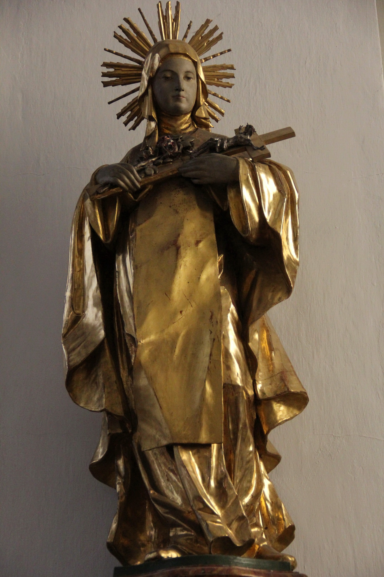 Church of St. Maurice Native nameMoritzkircheLocationIngolstadt, GermanyCoordinates48° 45′ 48.75″ N, 11° 25′ 28.97″ E Established9c